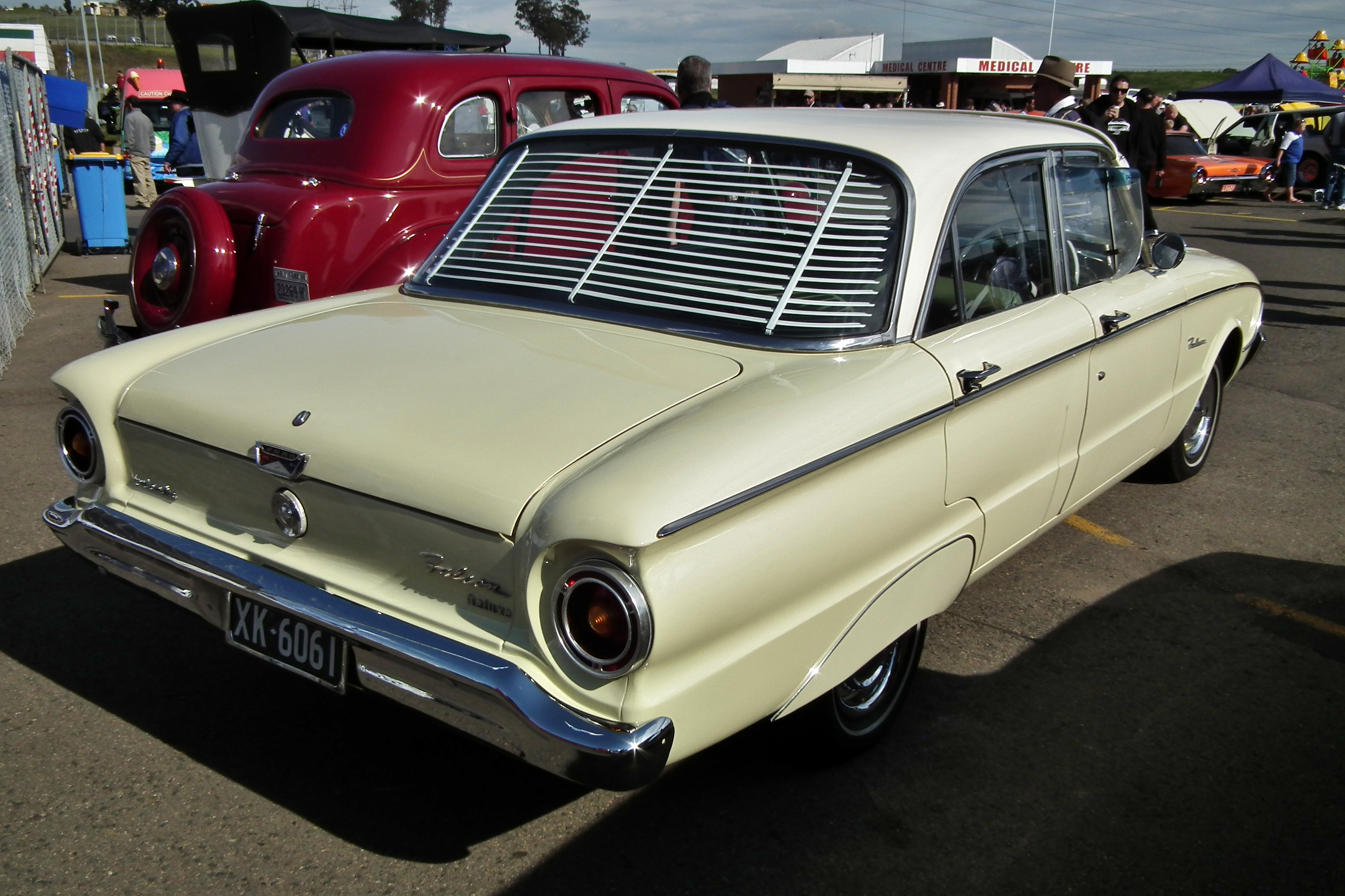 1961 Ford XK Falcon Deluxe sedan. Taken at the 2011 New South Wales All Ford Day, held at Eastern Creek Raceway.